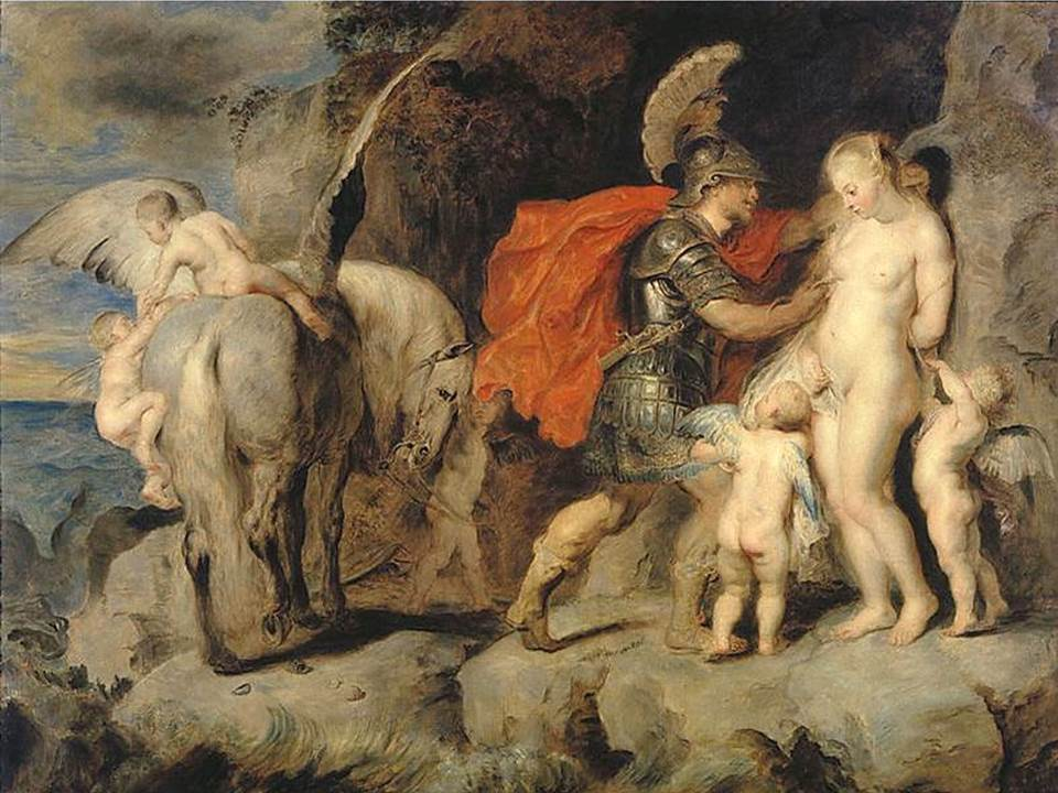 Perseus Frees Andromeda by Edouard de Jans